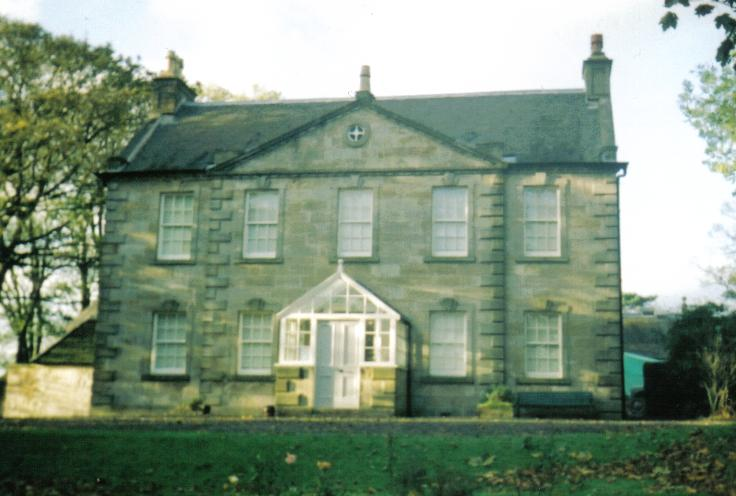 The Laird's House at Wester Kittochside near Carmunnock, Glasgow. This is part of the Museum of Scottish Country Life